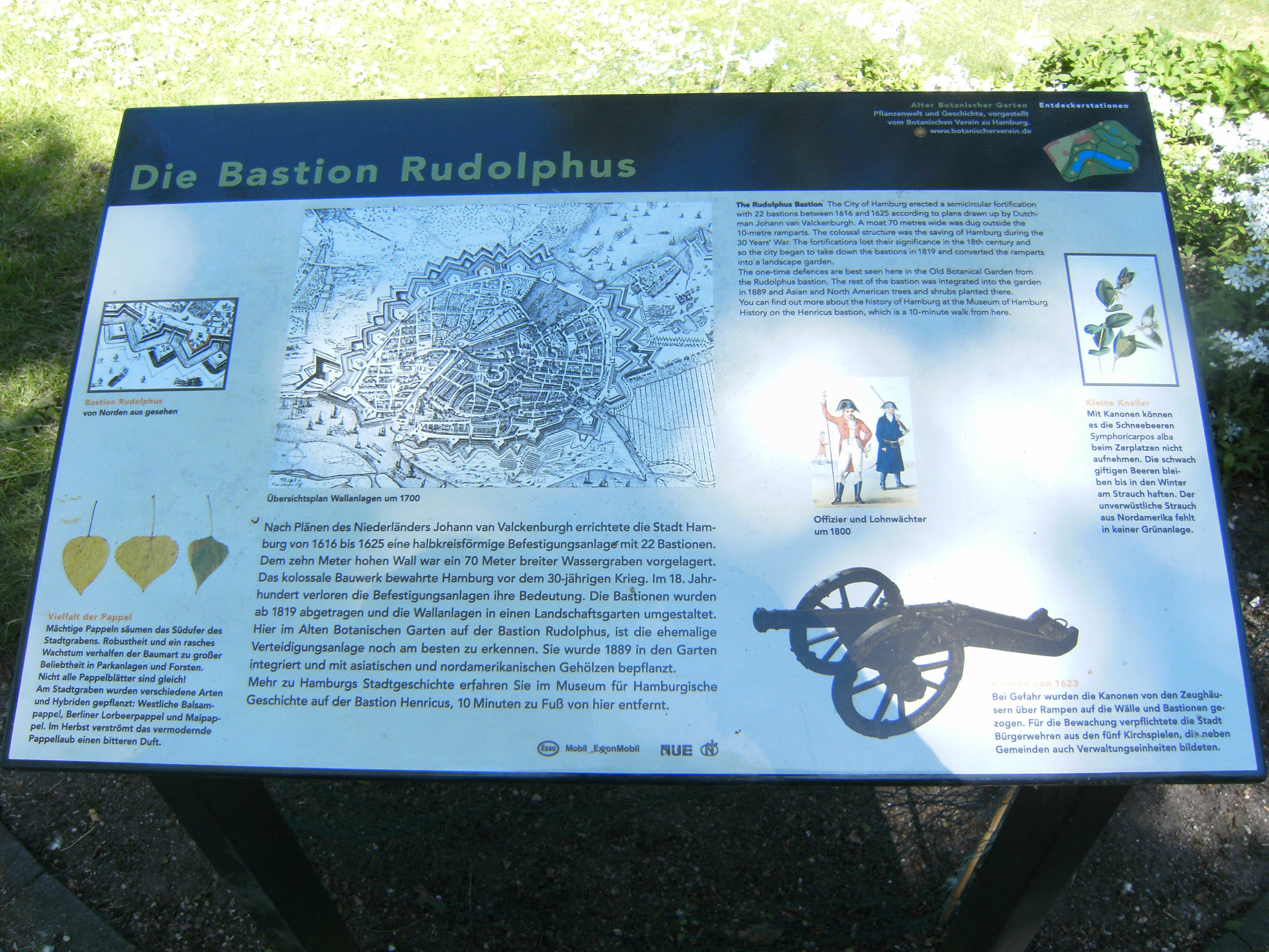 Hamburg, Germany, Planten un Blomen: Map of ramparts in Hamburg about 1700, Bastion Rudolphus.